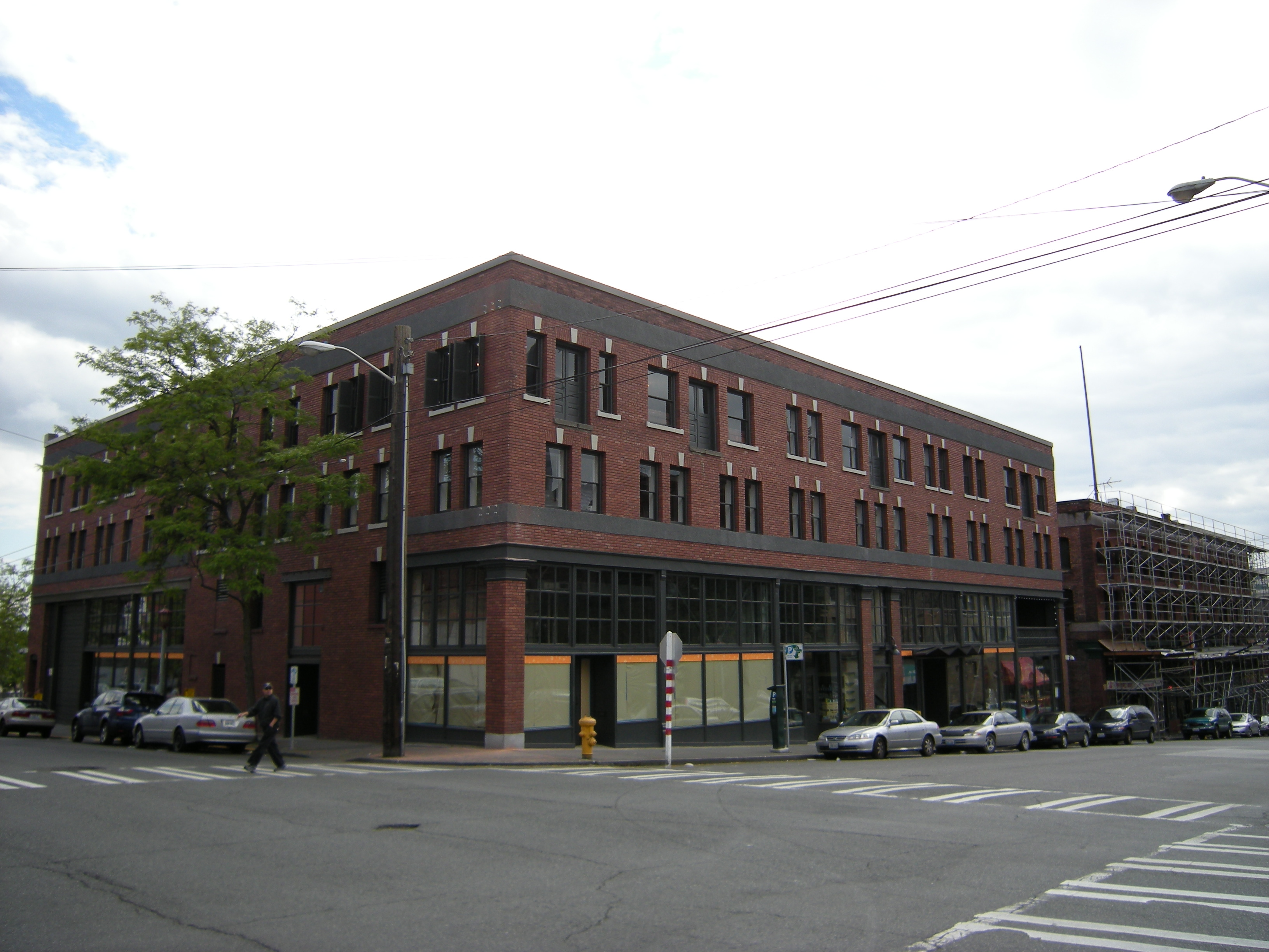 East Kong Yick Building, 715-725 S King Street, International District, Seattle, Washington. This 1910 building is the new home to the Wing Luke Museum.